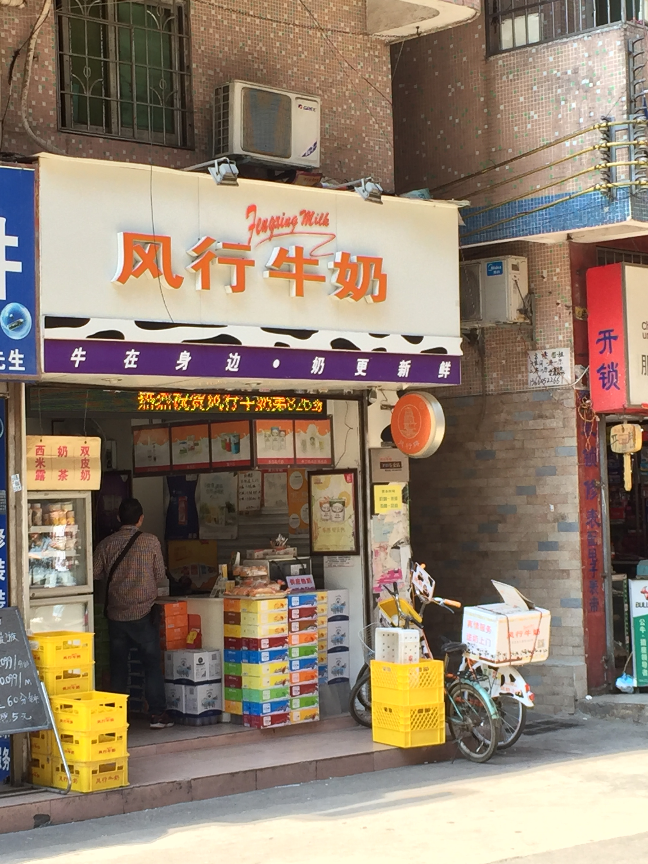 A Store of Fengxing Milk in Tianhe district, Guangzhou.中文（中国大陆）: 位于广州市天河区的风行牛奶门店